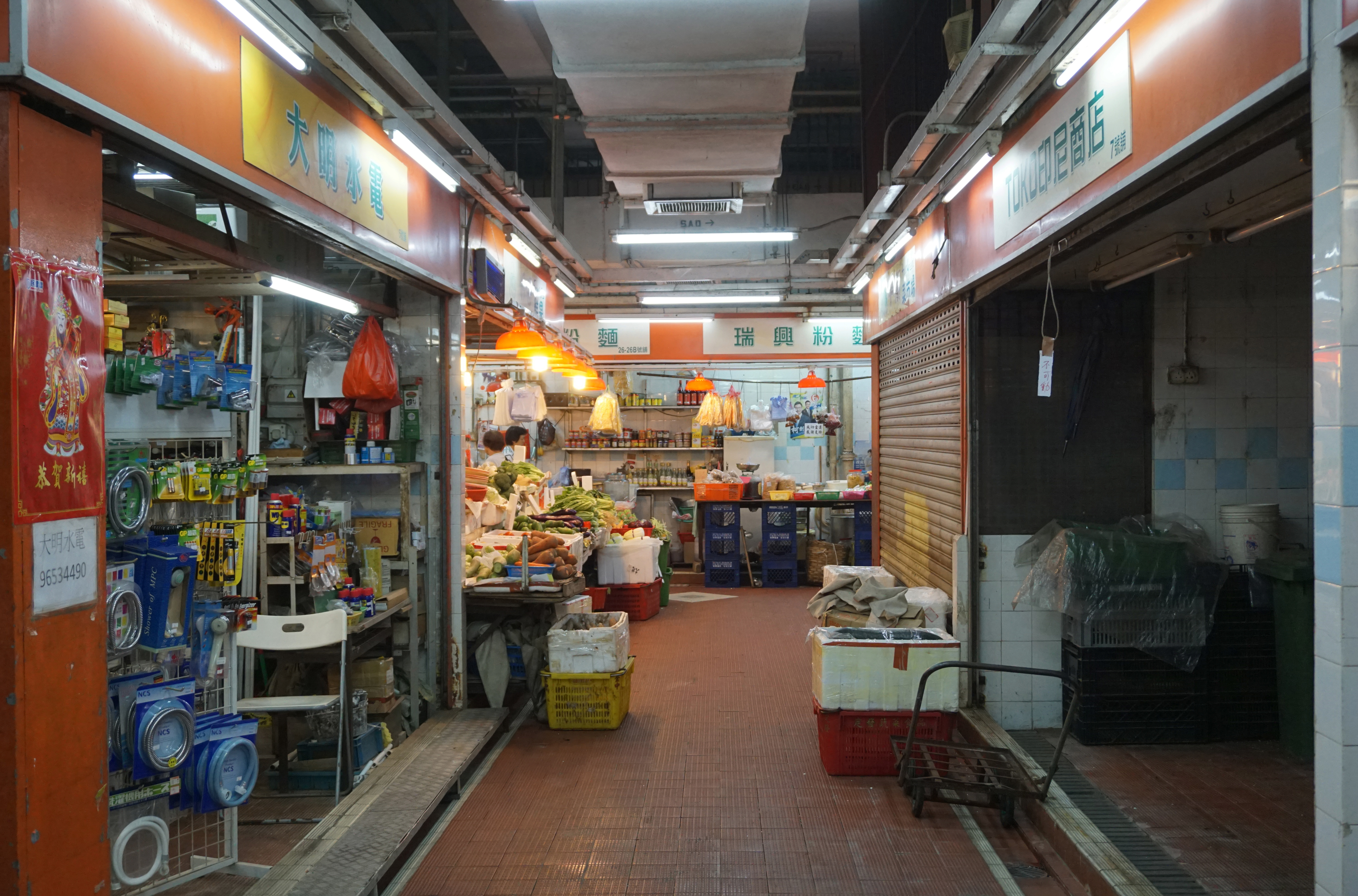 Kwong Tin Market in Lam Tin, Hong Kong.